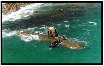 During 1996 this North Korean submarine floundered within 50 meters of shore. North Korea will attempt to penetrate ROK rear areas in war just as certainly as they historically have done during the armistice.Монгол: 1996 оны үед энэ нь Хойд Солонгосын шумбагч онгоц эрэг нь 50 метрийн дотор floundered . Хойд Солонгос шиг мэдээж тэдний түүхэн Дайн зогсоох гэрээ үеэр хийсэн шигээ дайнд БНСУ хойд нутгийг нэвтрэх оролдох болно.